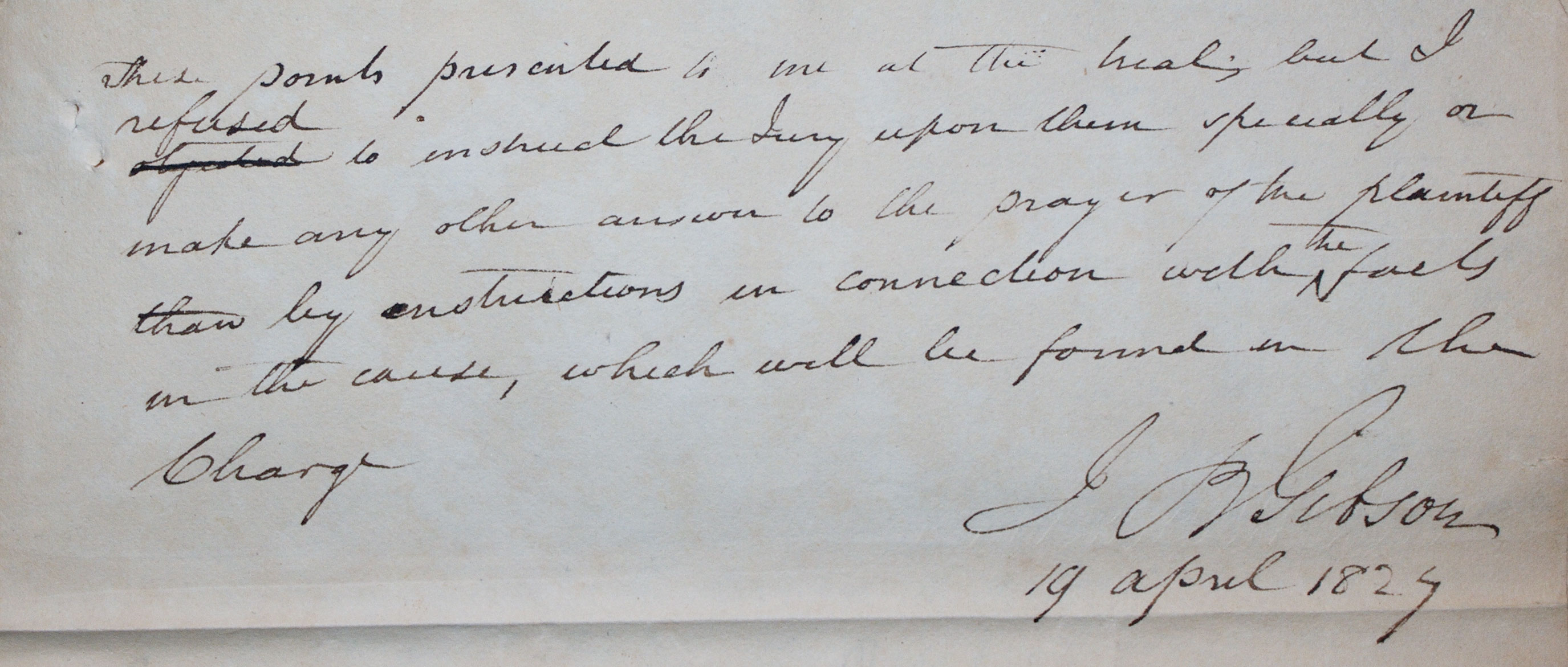 John Bannister Gibson's signature